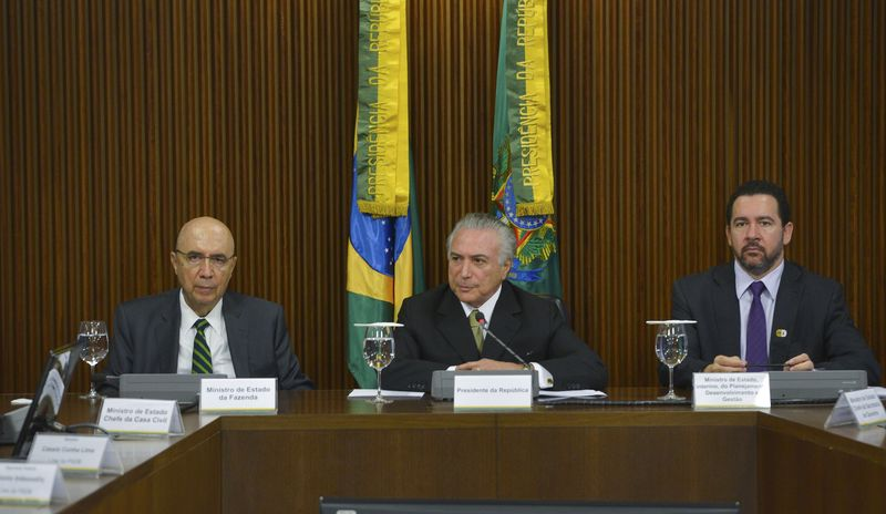 President Michel Temer announced economic measures.